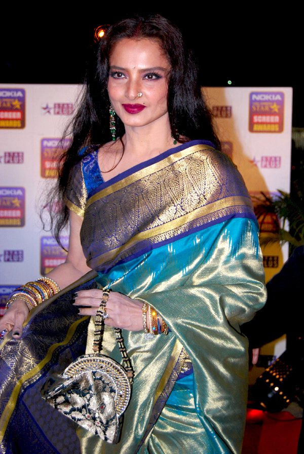 Nokia 14th Annual Star Screen Awards